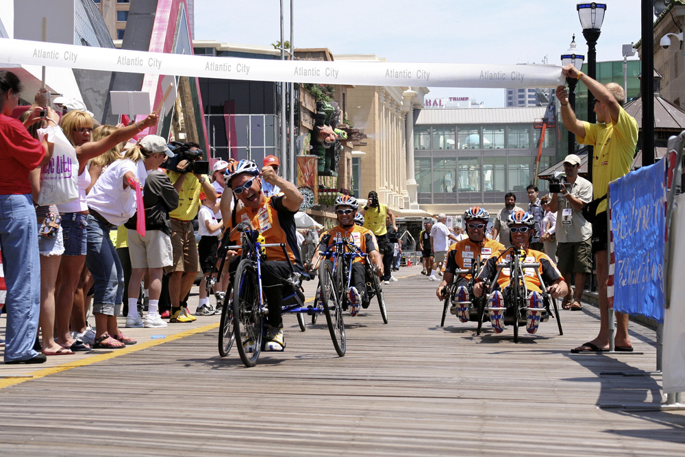 Race Across America 2006 RC Enjo Vorarlberg